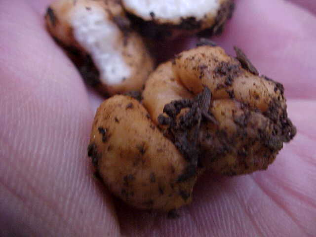 Barssia oregonensis Gilkey Image location: Paul Bishop’s Jones Creek Tree Farm, Beavercreek, Clackamas Co., Oregon, USA Recognized by sight: Peridium near maturity becoming reddish or pinkish shaded, minutely warted; apical pore present, leading into the gleba composed of cottony material, which gradually fill a hollow interior; spores pinkish to reddish under 100x; associated with Douglas-fir. For more information about this, see the observation page at Mushroom Observer.